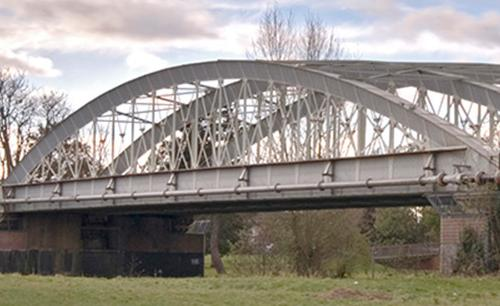 Brunels 1849 GWR Bridge at Windsor across the Thames Source: WyrdLight .